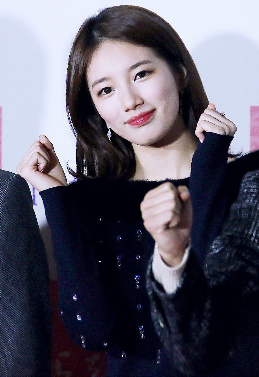 Bae Suzy at the Premier for The Sound Of A Flower, 23 Nov. 2015